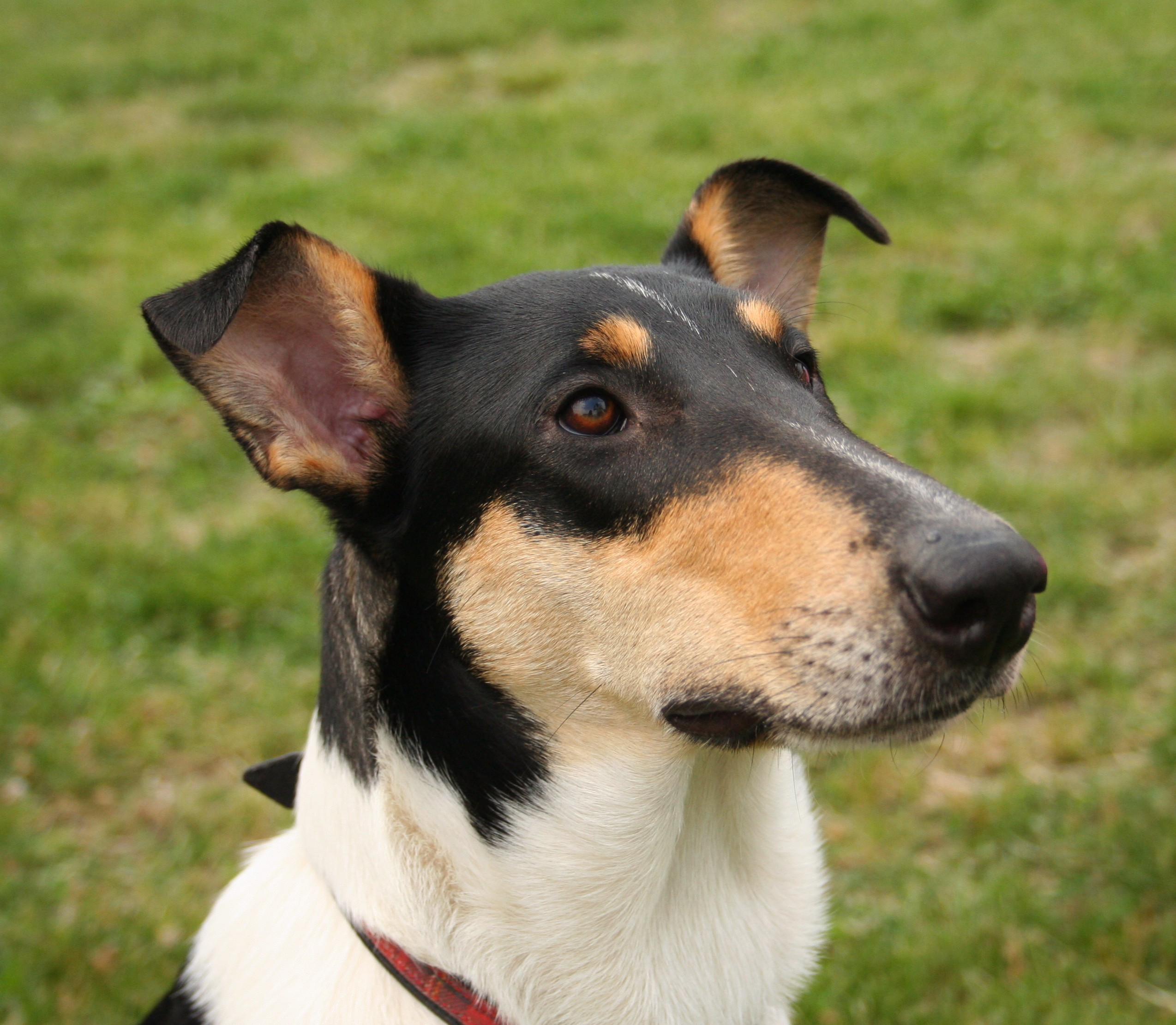 Smooth coated collie during dog's show in Racibórz, Poland